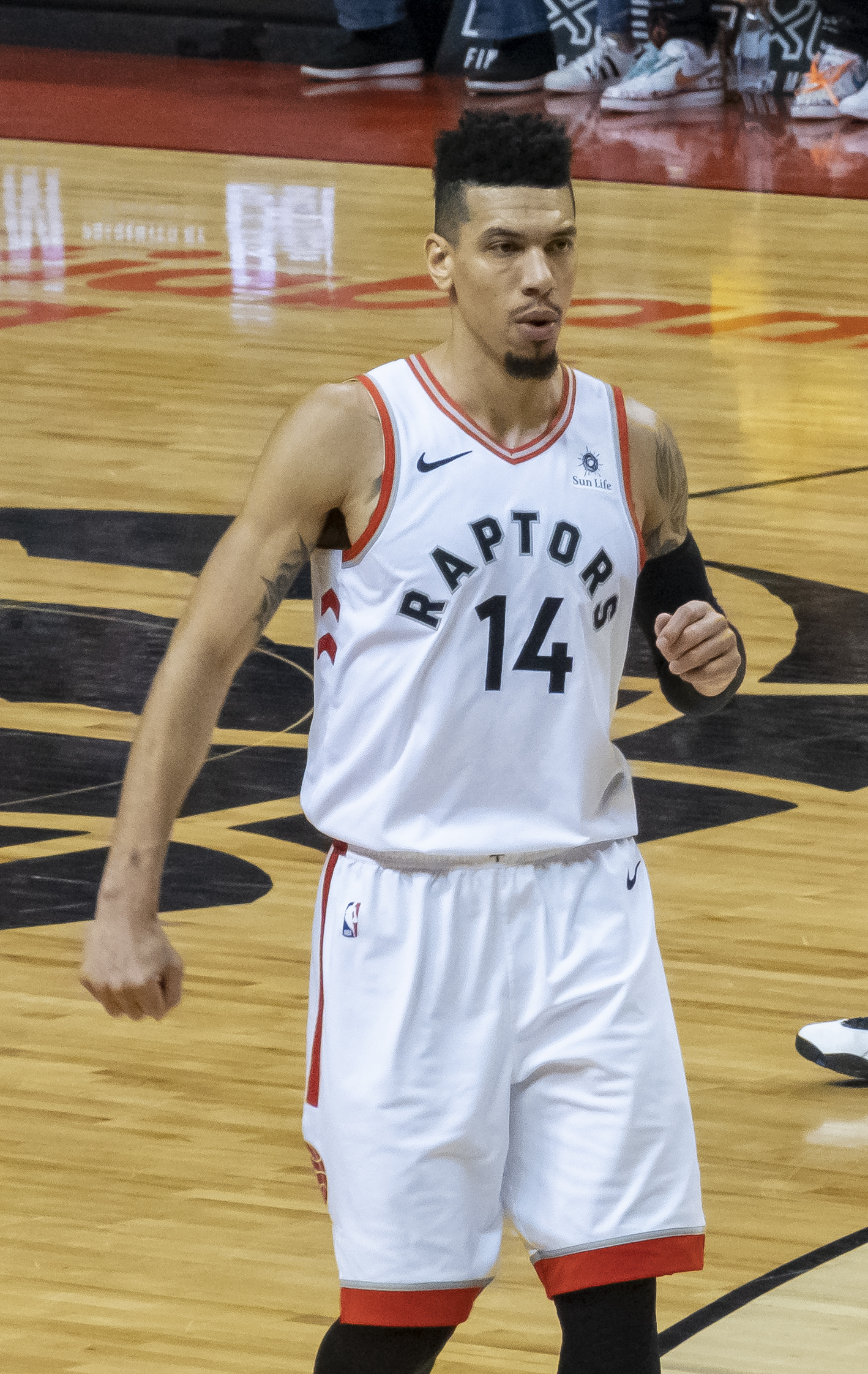 Danny Green playing for Toronto Raptors in 2019 Scotiabank Arena v Charlotte Hornets